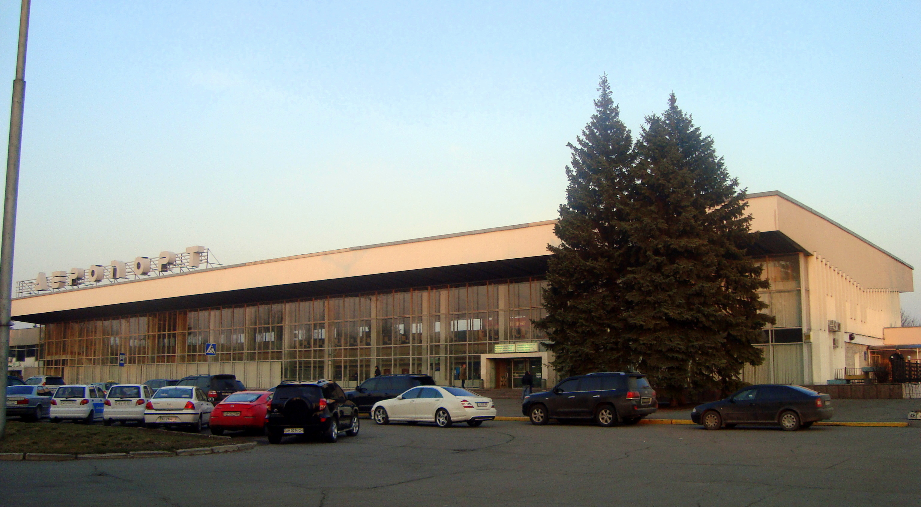 Main terminal at Dnipropetrovsk International Airport, Dnipropetrovsk, Ukraine